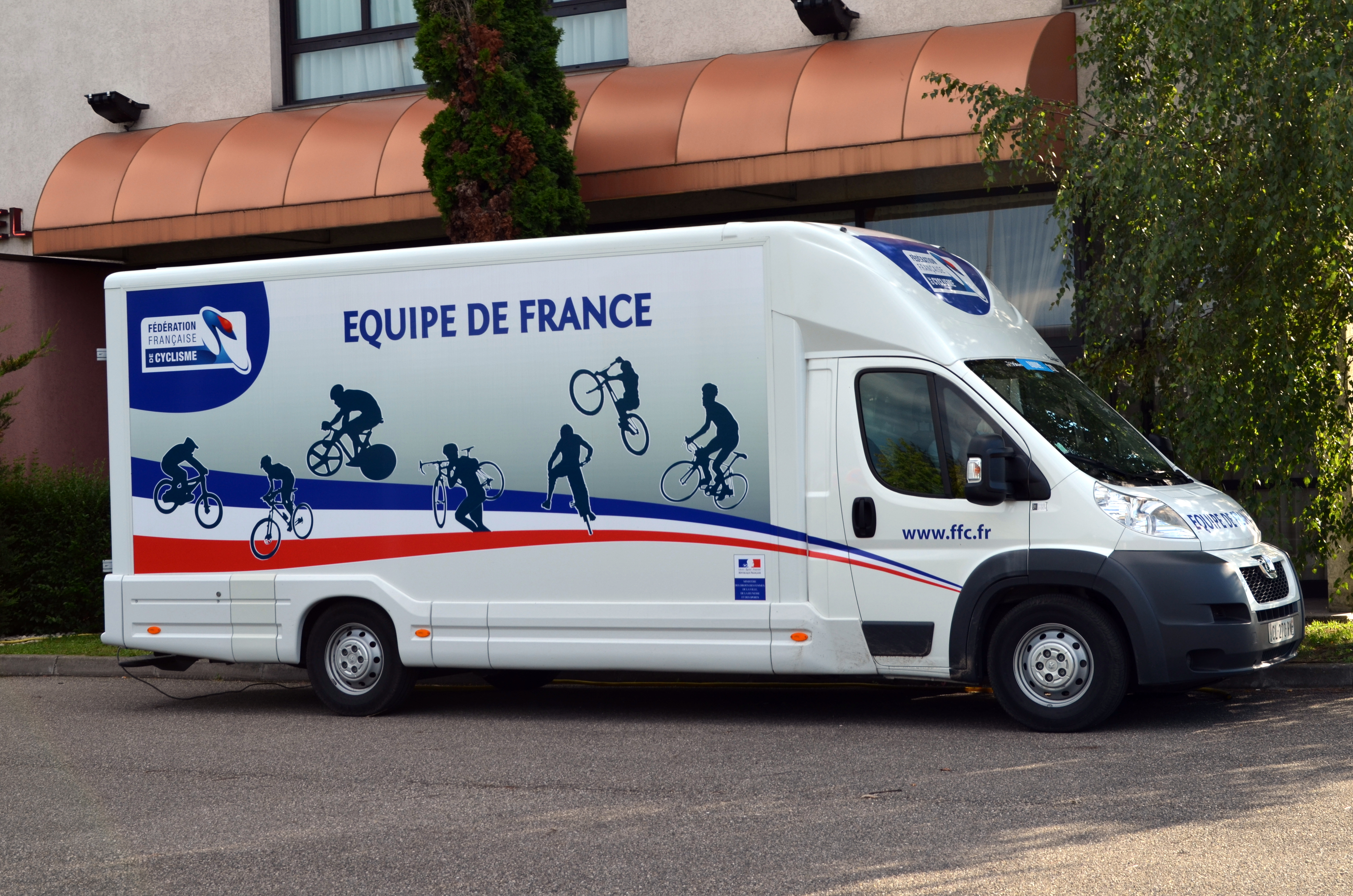 Tour de l'Ain 2014 - Stage 1, evening at hotel.